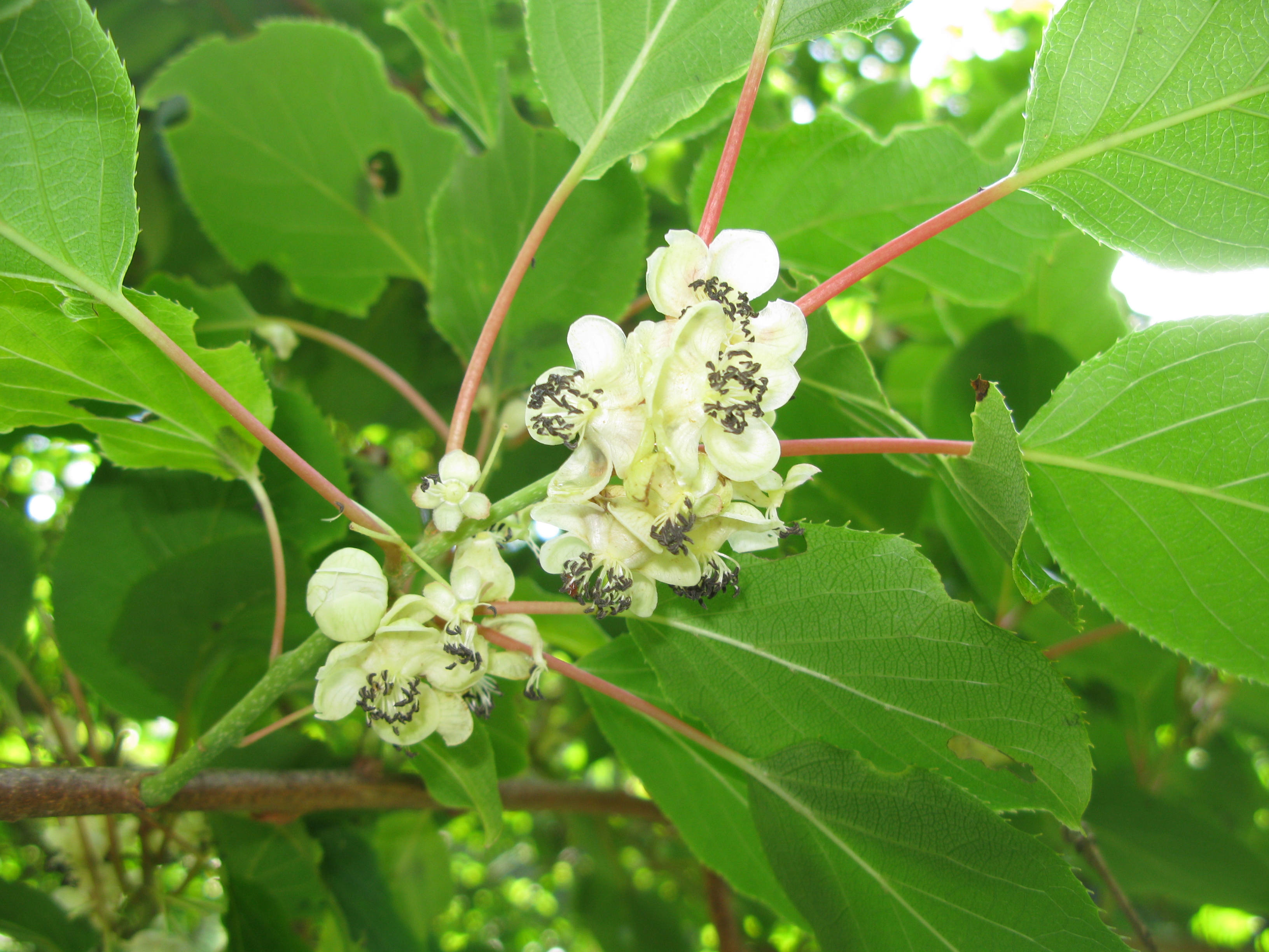 Actinidia arguta,Male flowers,Aizu area,Fukushima pref.,Japan